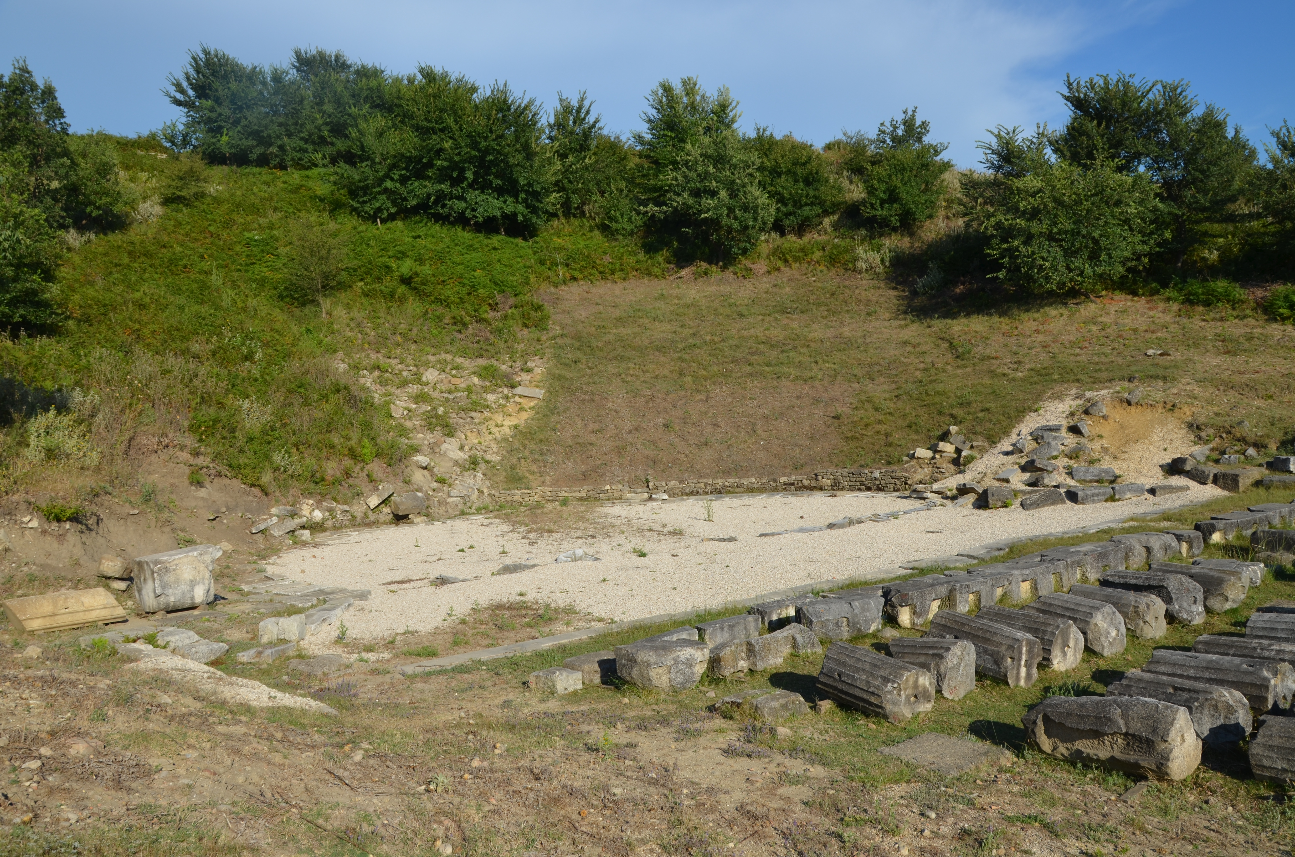 The Theatre marking the westernmost point of the Agora, built in the first half of the 3rd century BC, it had a diametre of about 100m and could accommodate an audience of 10,000, Apollonia, Albania